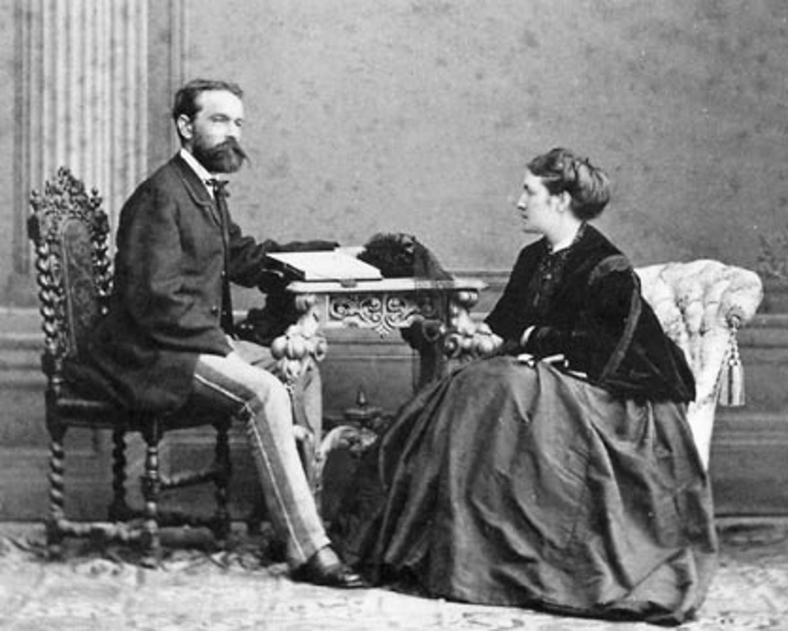 German composer Josef Gabriel Rheinberger (1839–1901) with his wife Fanny.